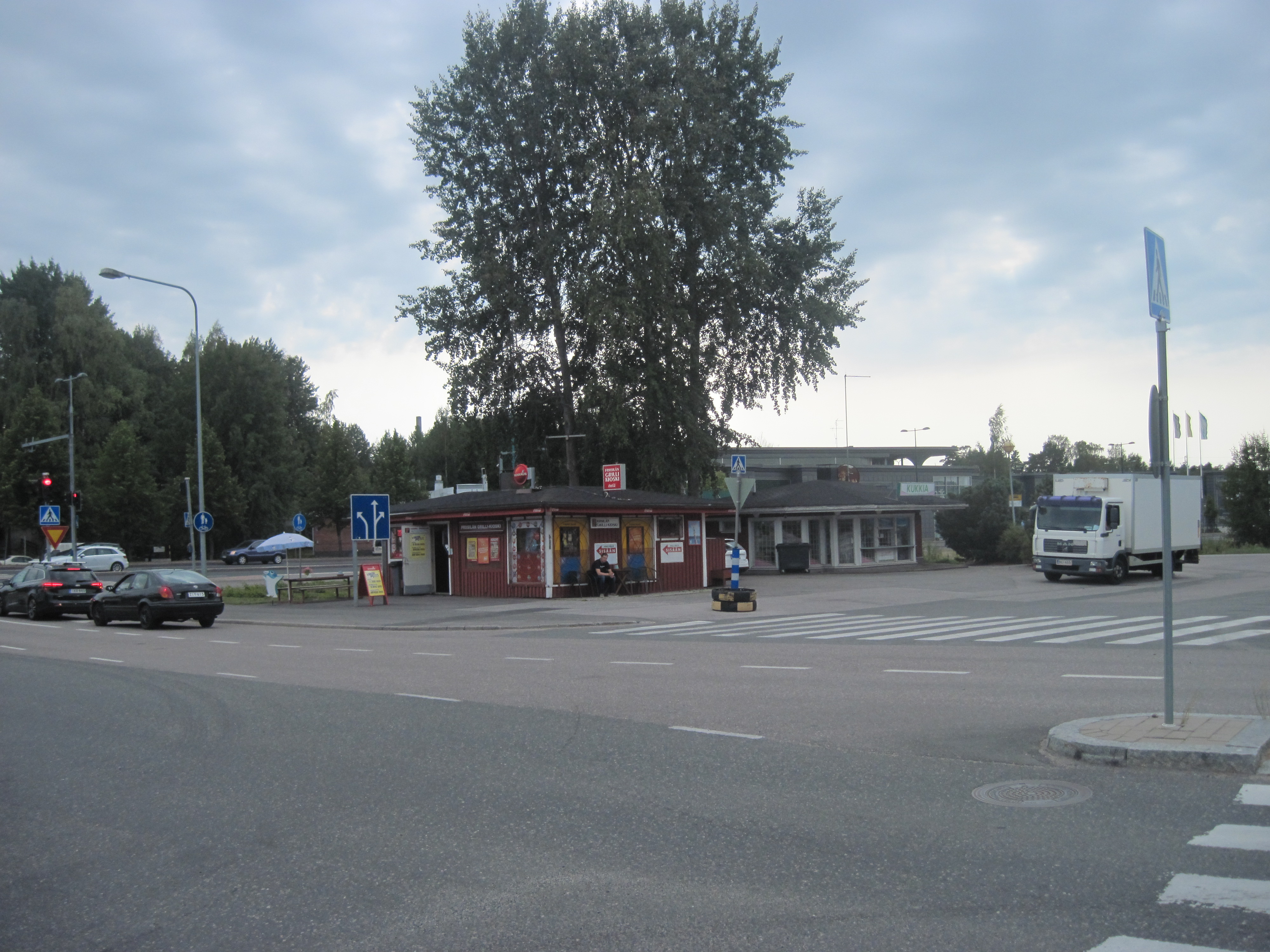 Friisilänaukio Square at Friisilä, Espoo, Finland